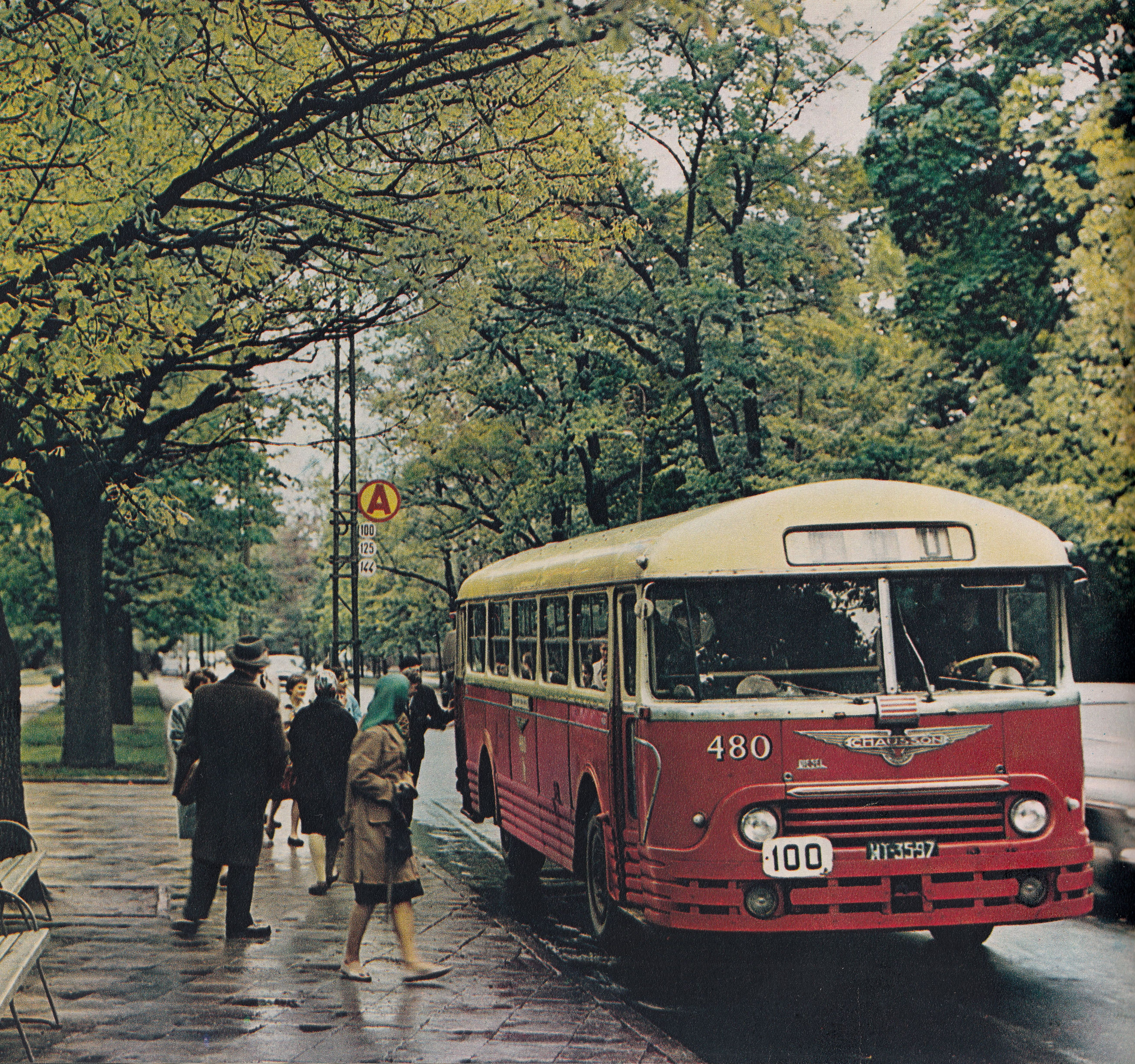 A Chausson bus in Warsaw